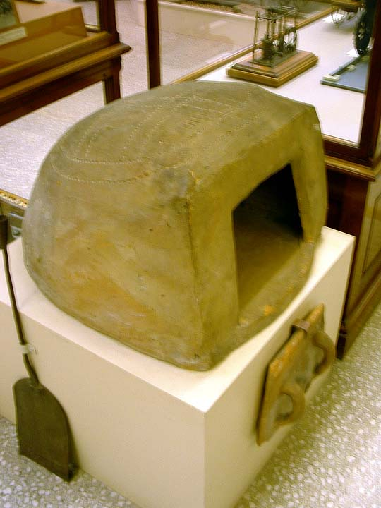 taken in truro museum Cornwall